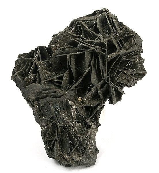 Chalcocite, Covellite Locality: Butte, Butte District, Silver Bow County, Montana, USA (Locality at ) Size: 7.1 x 5.4 x 3.2 cm. Butte covellite is an American classic. Here, the covellite has been replaced (pseudomorphed) by sparkly, black chalcocite. This very special old-timer was in the collection of Gene Meieran, in his sulfide suite. This was likely mined in the 1950s-1960s.